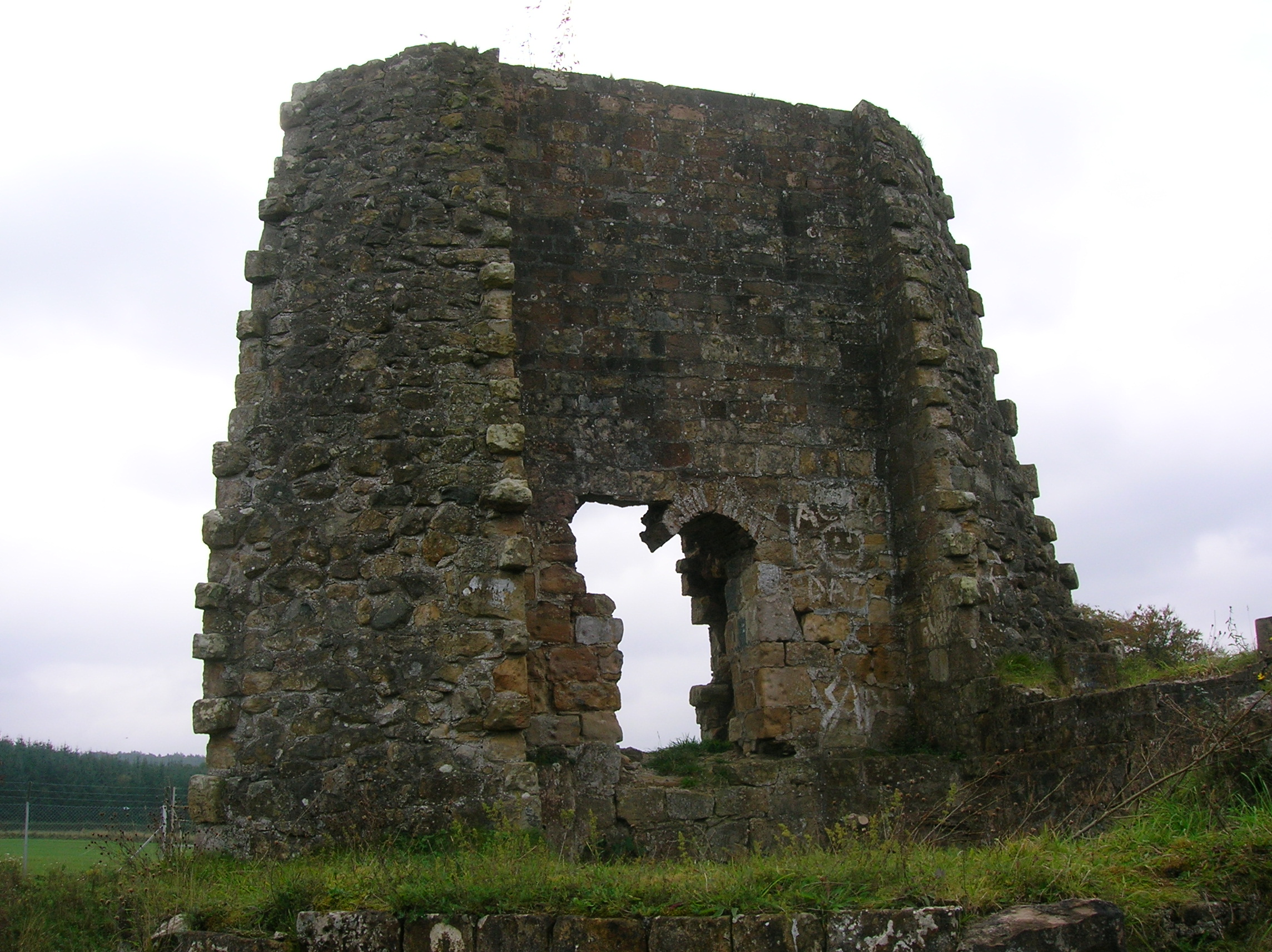 A view of the ruins of Terringzean Castle as seen from the east, Cumnock, East Ayrshire, Scotland